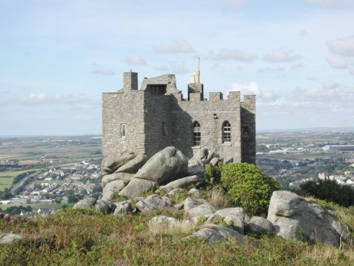 Carn Brea Castle taken by user:Ash in 1996.